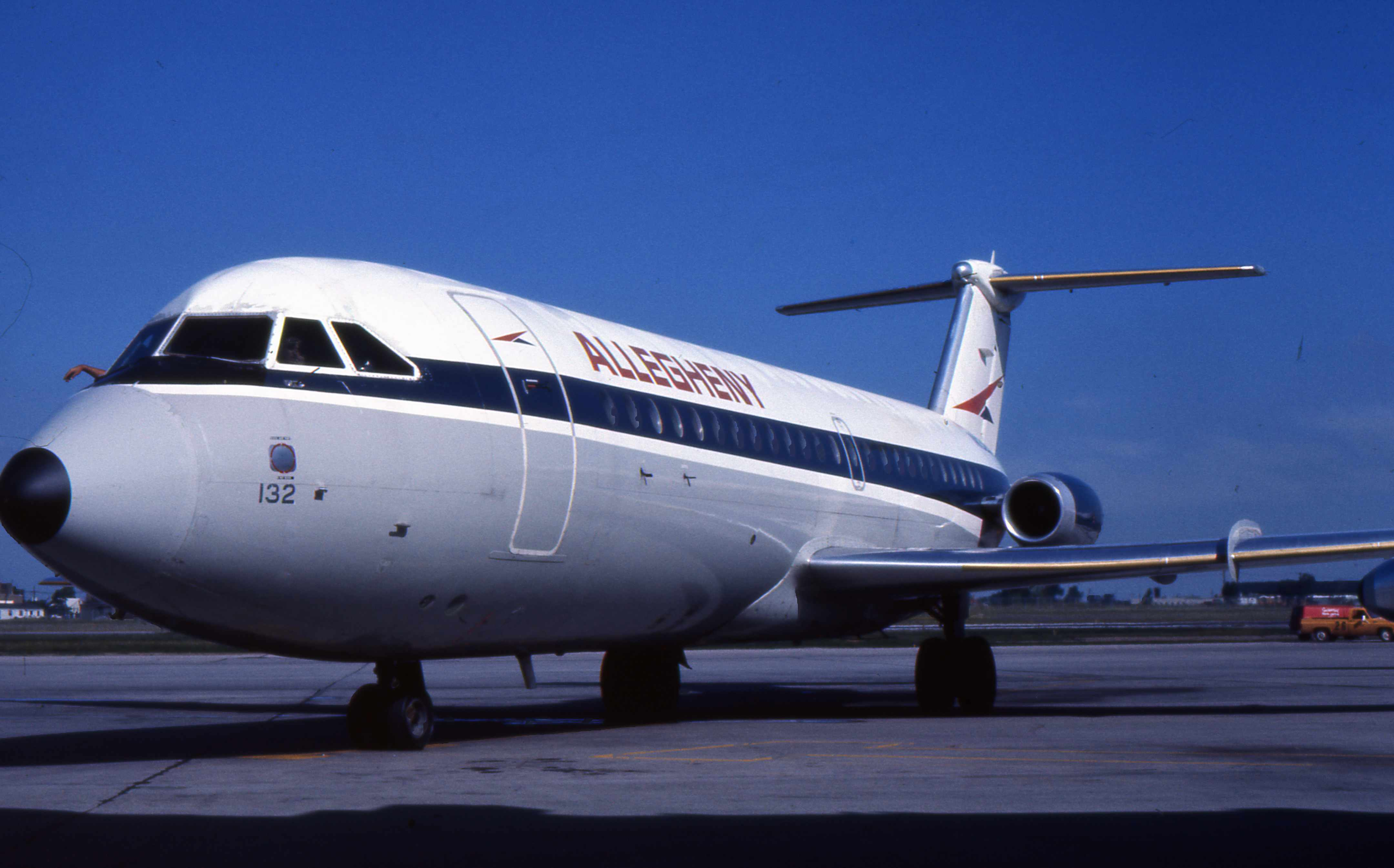 Allegheny Airlines BAC 1-11 215AU, c/n 105. Delivered to Aloha Airlines as N11183 on May 31, 1967. Sold to Mohawk then merged with Allegheny Airlines.